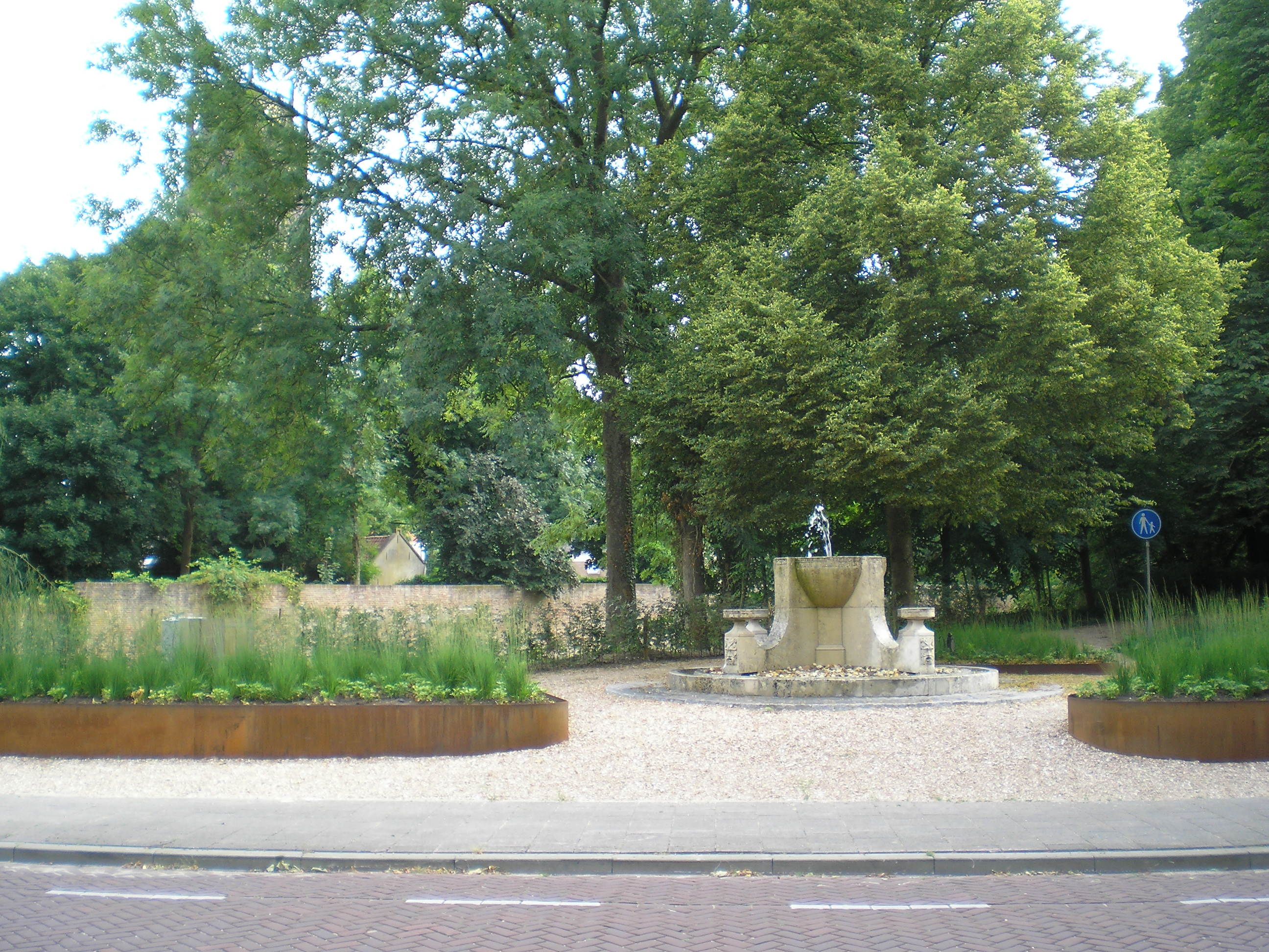 Boschstraat in Zaltbommel in the Netherlands